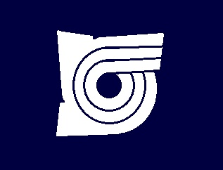 Flag of Kaminokawa Tochigi